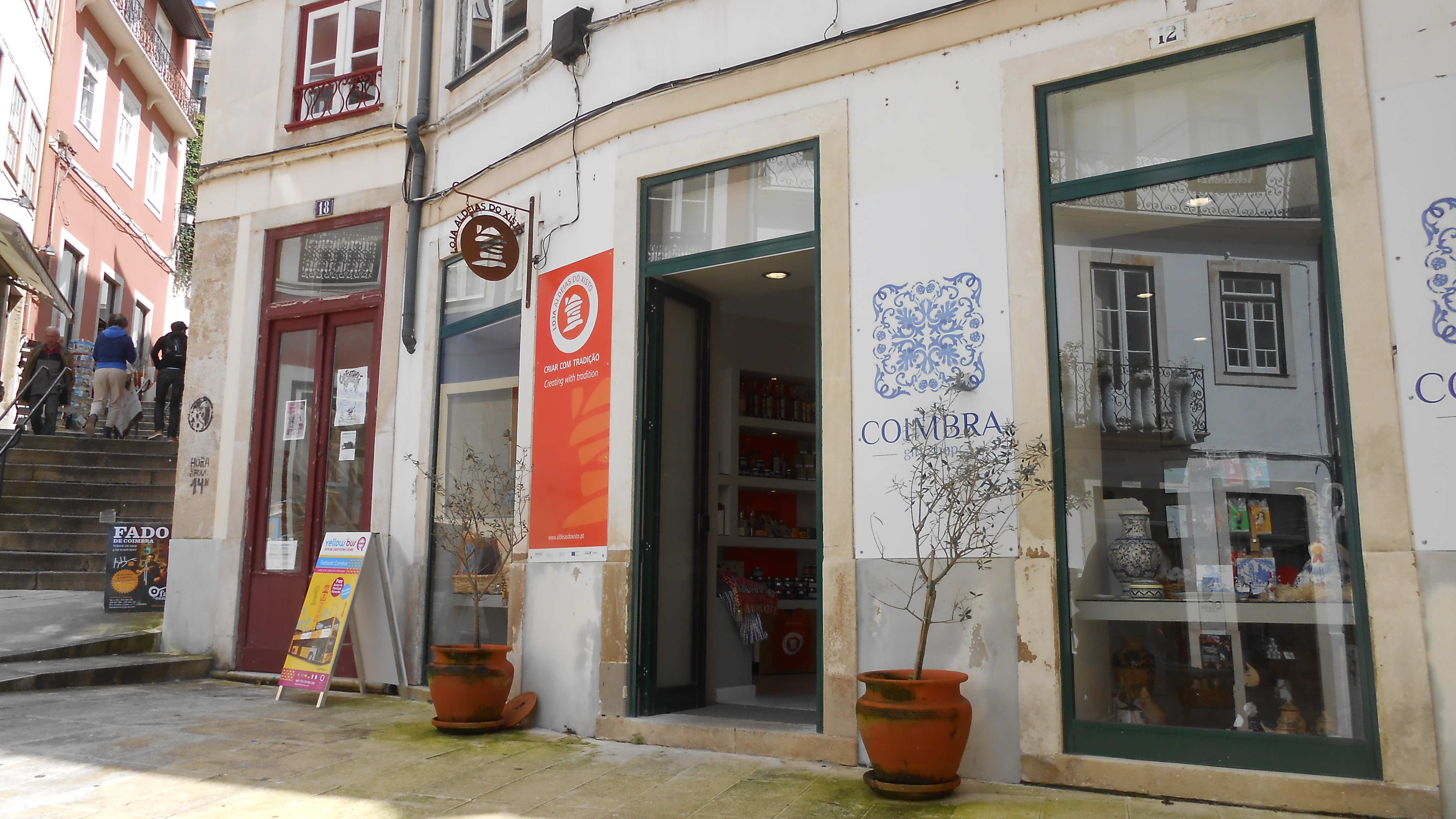 The Coimbra branch of the shops of the "Aldeias do Xisto", the traditional slate villages in mid-Portugal